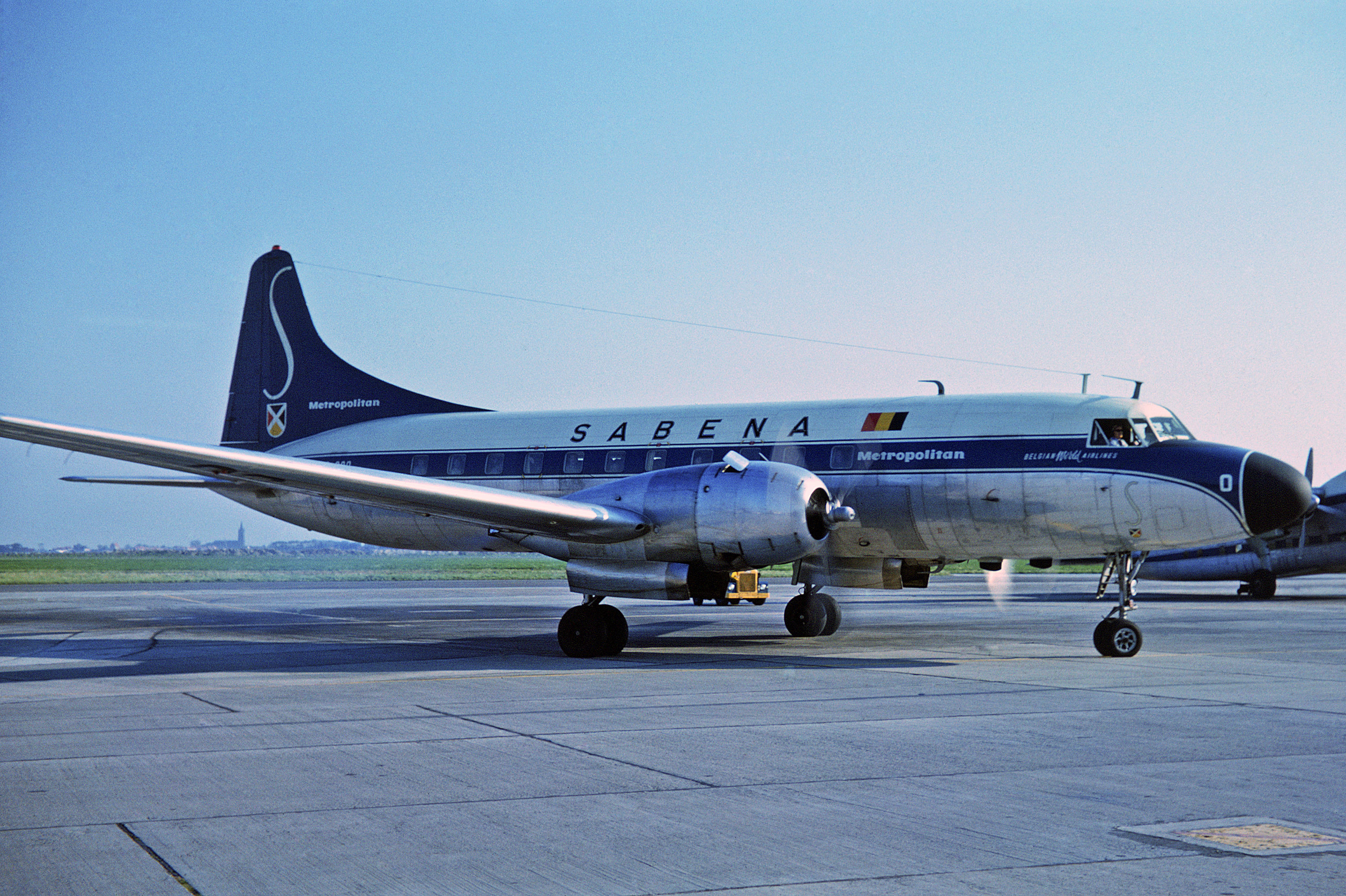 Sabena Convair CV-440 (OO-SCO) at Ostend-Bruges International Airport. The aircraft in the background is a Silver City Bristol 170 Freighter (actually they'd been swallowed up by British United by 1963 although it's still in Silver City's c/scheme).